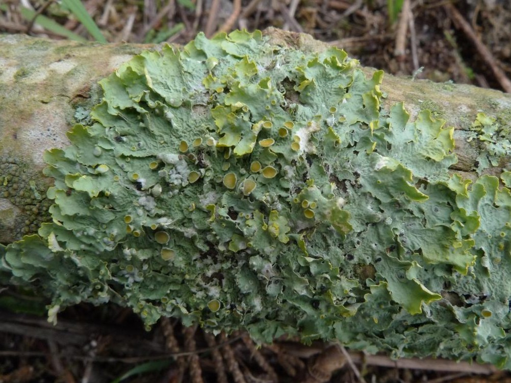 Xanthoria parietina, green-grey thallus, shaded habitat